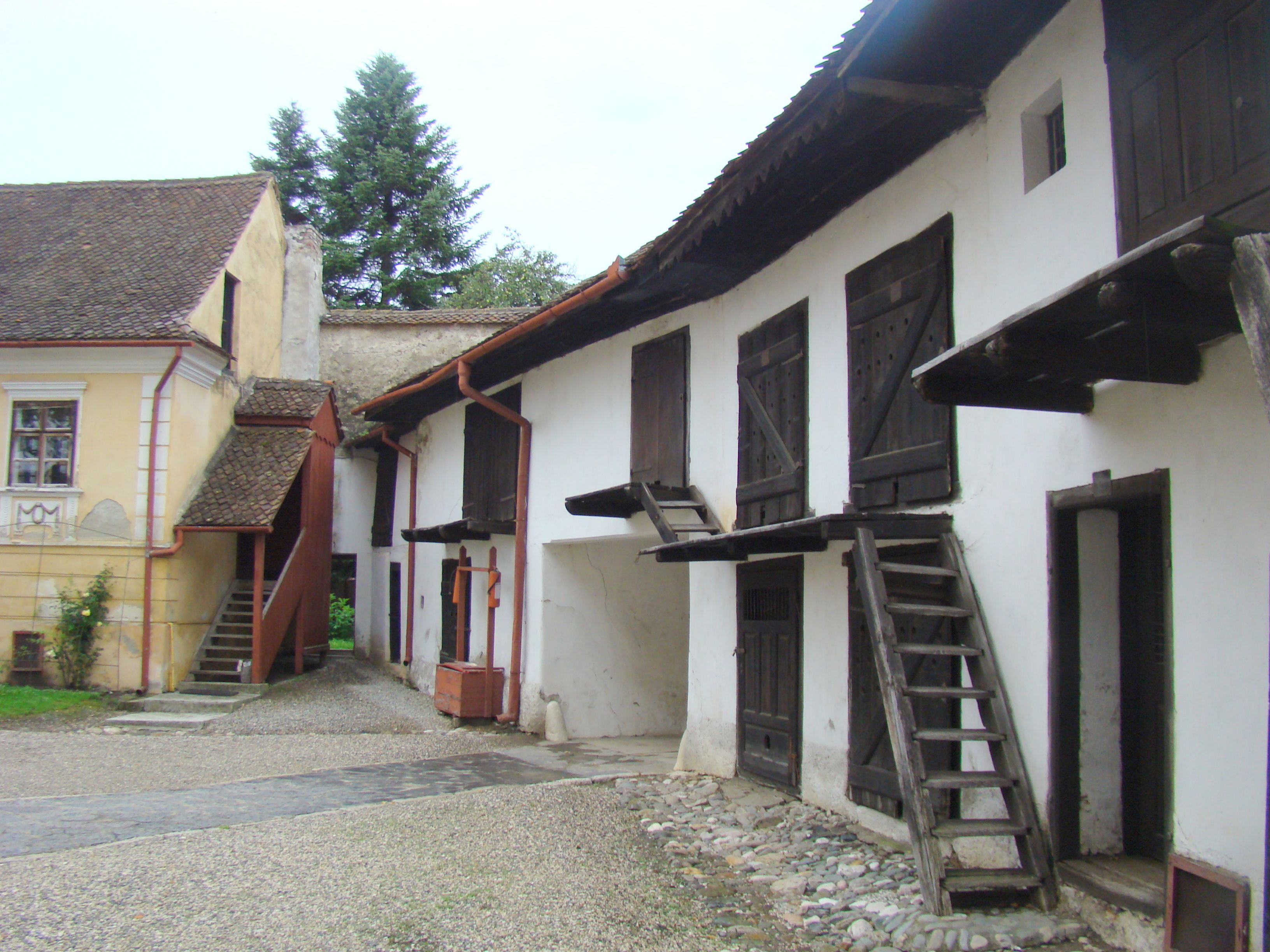 Fortified church in Vulcan, Brașov County, Romania